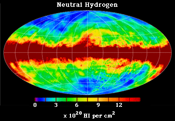 Map of the column density of Galactic neutral hydrogen in the same projection as Figure 1. Note the general negative correlation between the 1/4 keV diffuse X-ray background of Figure 1 and the neutral hydrogen column density shown here.